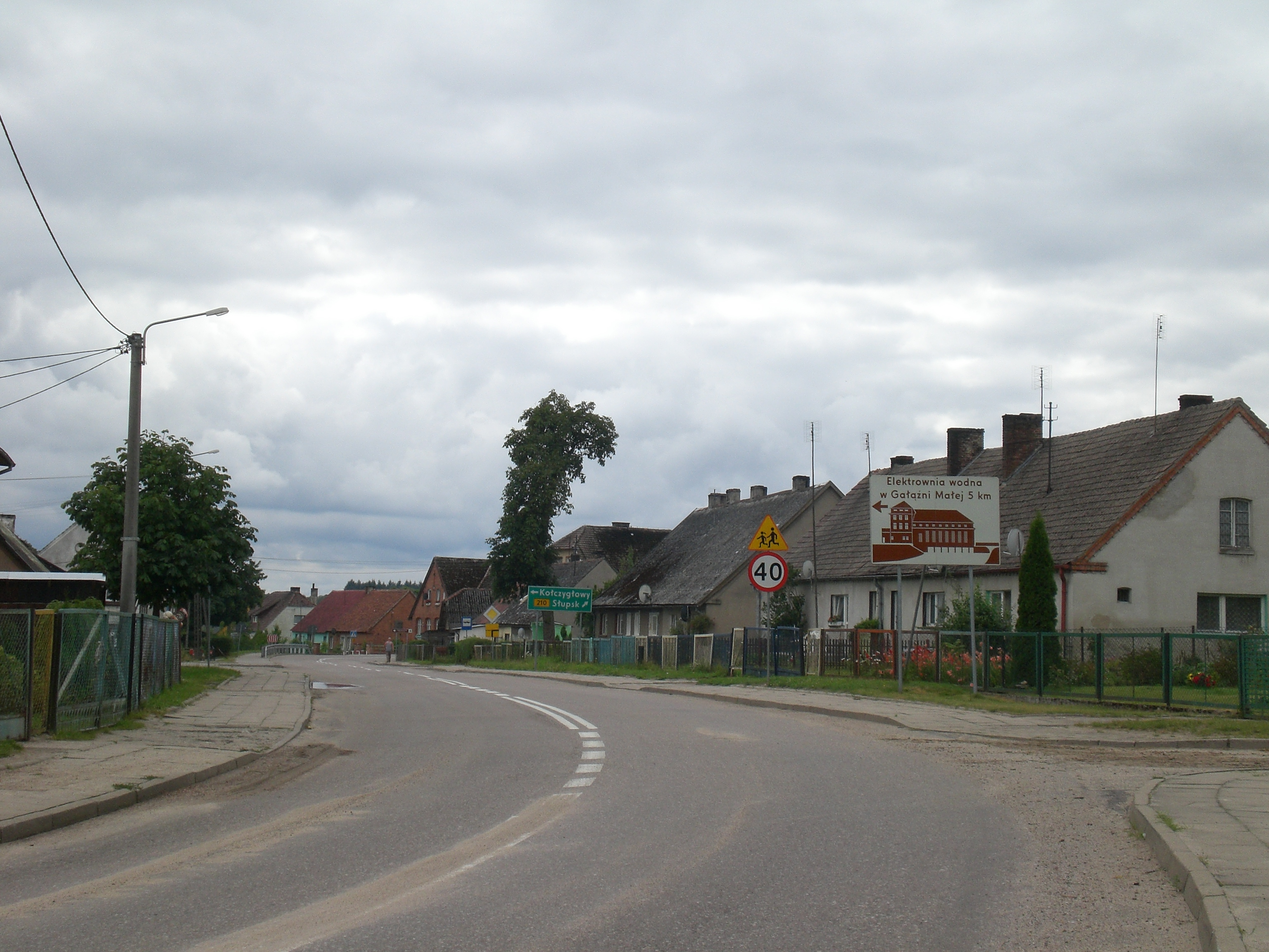 Voivodeship Road 210 in Motarzyno, Poland